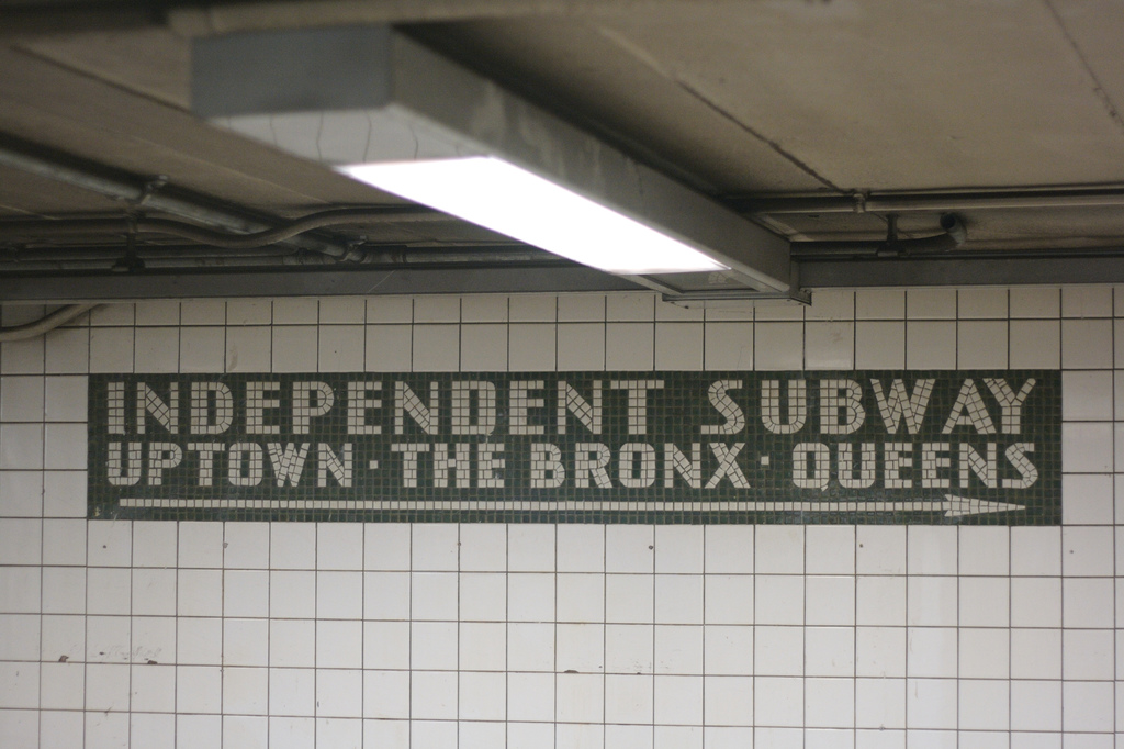 Independent Subway sign in New York City’s underground.Although the three subway systems of New York have already been unificated in 1940, some “signs” of separation are still in evidence.